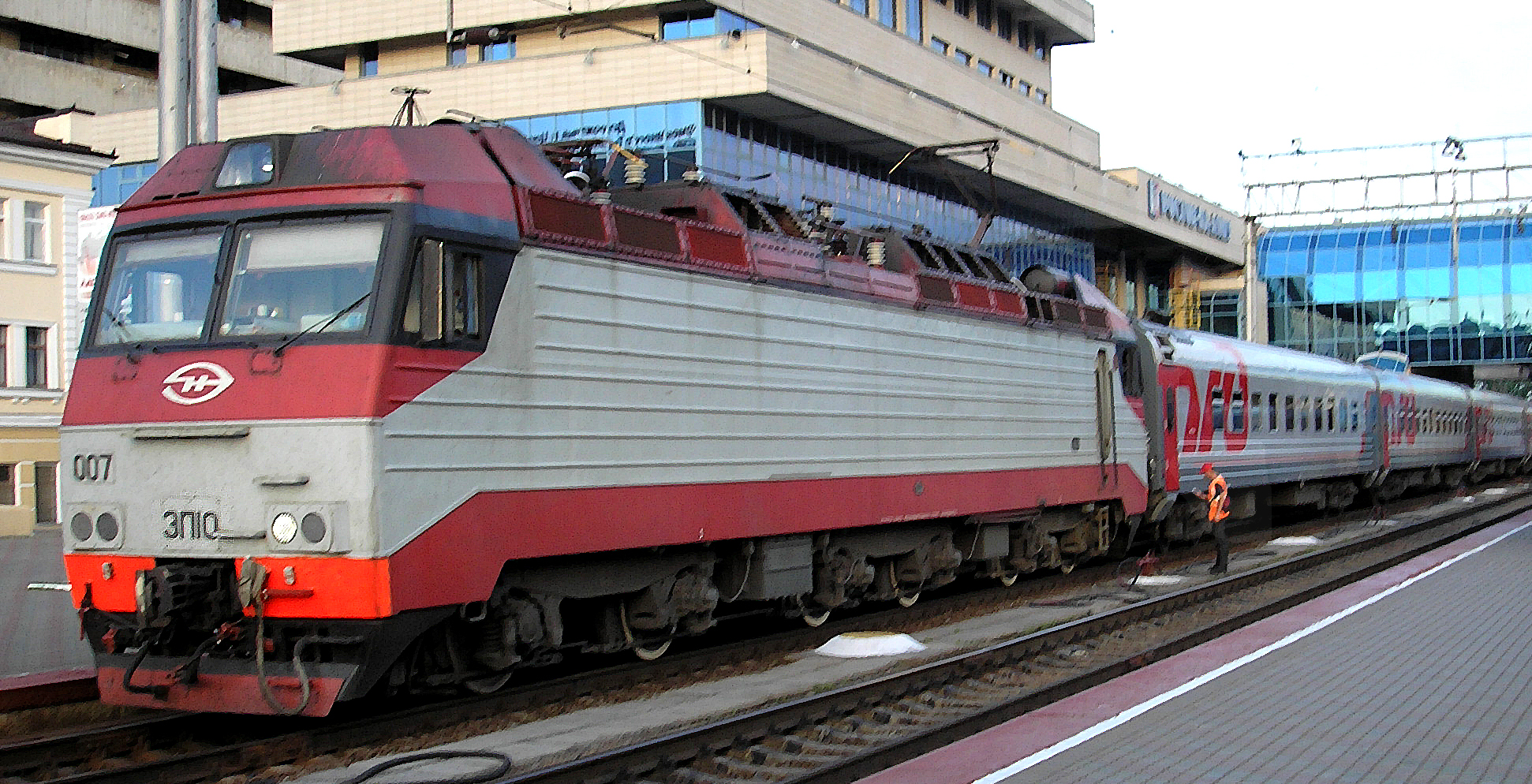 Russian electric locomotive EP10-007 with train of premium type